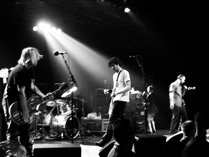 Bad Religion in concert at Arenan, Stockholm, Sweden.